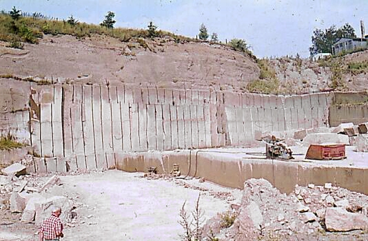 Tuff pit in Ettringen, Eifel, Germany